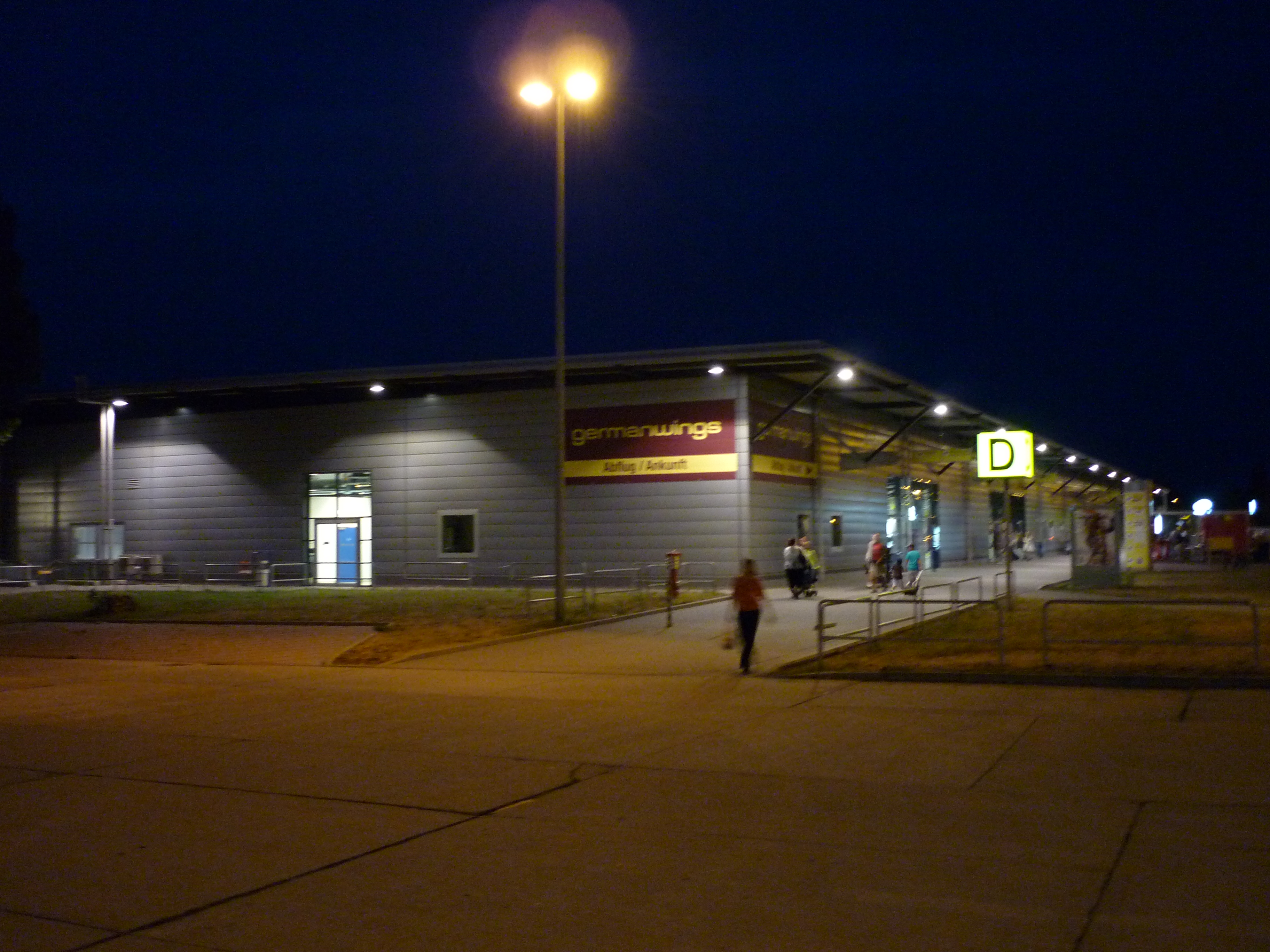 The Terminal D at Berlin Schönefeld Airport. The primar users of the Terminal are Germanwings and Condor.